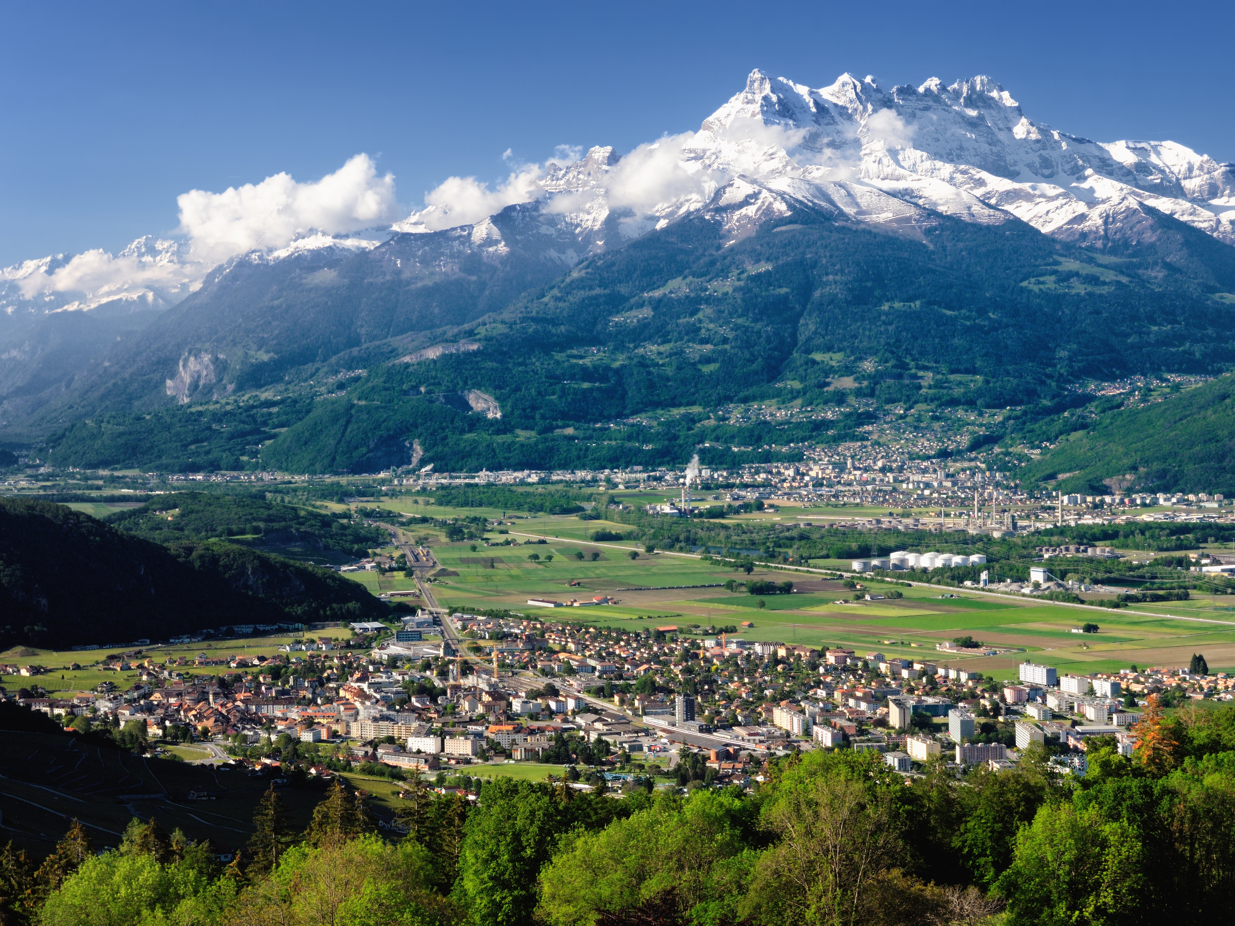 The region of Aigle with Monthey and the Dents du Midi in background, across the Rhone Valley. View from Vers-Cort (~800 m).